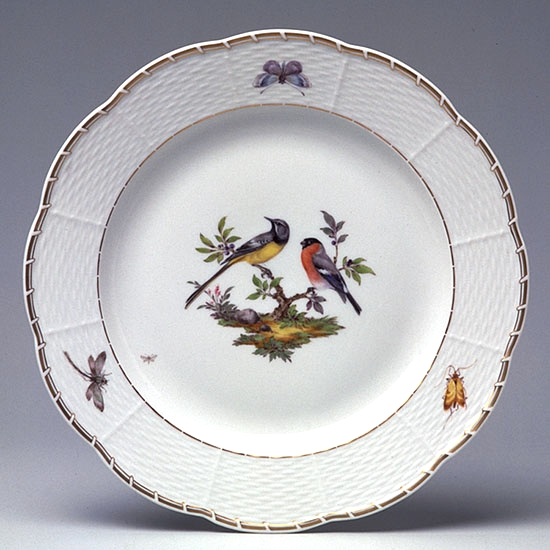 Plate, bird painting